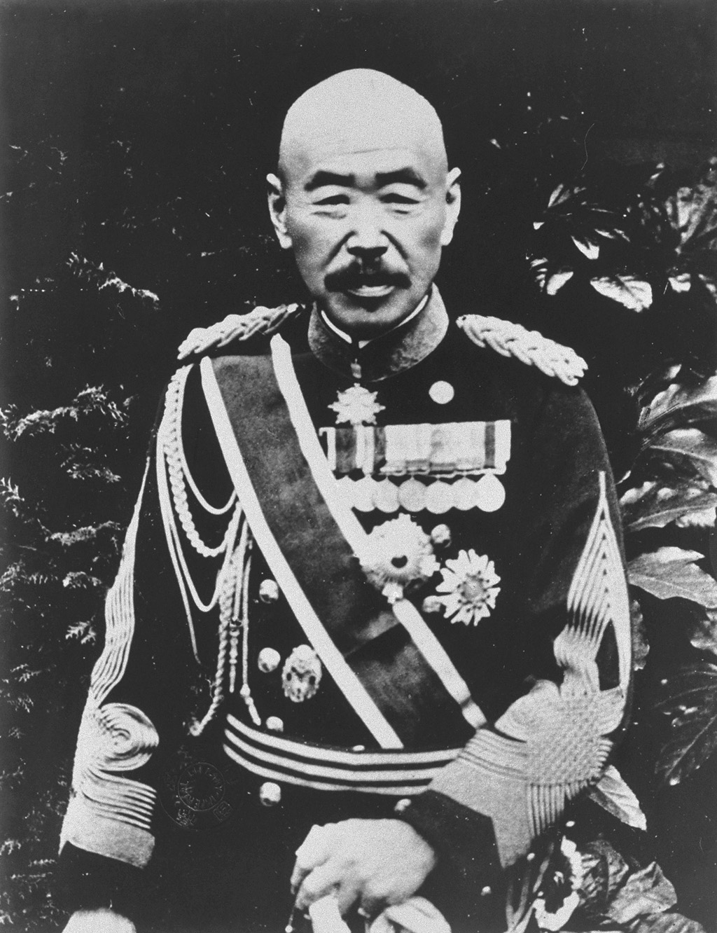 Portrait of Viscount Uehara Yusaku (上原勇作, 1856 – 1933). Yūsaku was a field marshal in the Imperial Japanese Army.